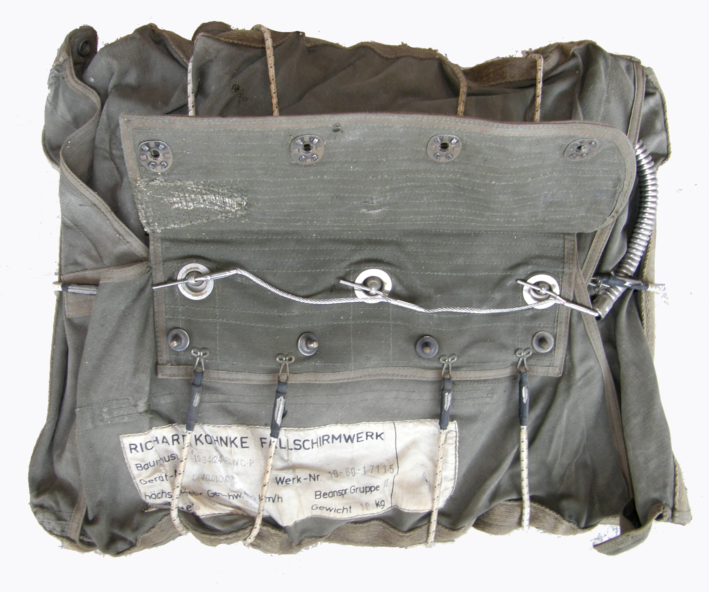 Parachute-container 1961 closed, empty, Model Kohnke 1961